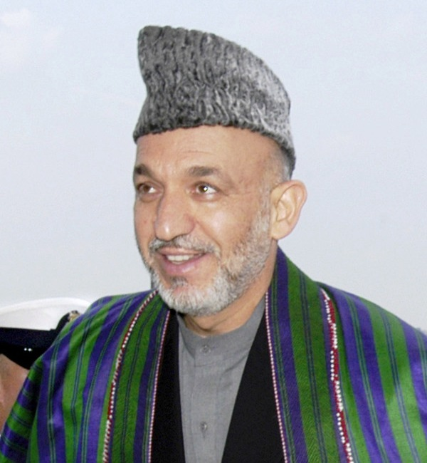 Afghan President Hamid Karzai, cropped image [Original: Secretary of Defense Donald H. Rumsfeld (right) escorts Afghan President Hamid Karzai (center) through an honor cordon and into the Pentagon on June 14, 2004. The two men will meet to discuss a range of security issues particular to Afghanistan and its immediate neighbors. DoD photo by R. D. Ward. (Released) 040614-D-9880W-034]